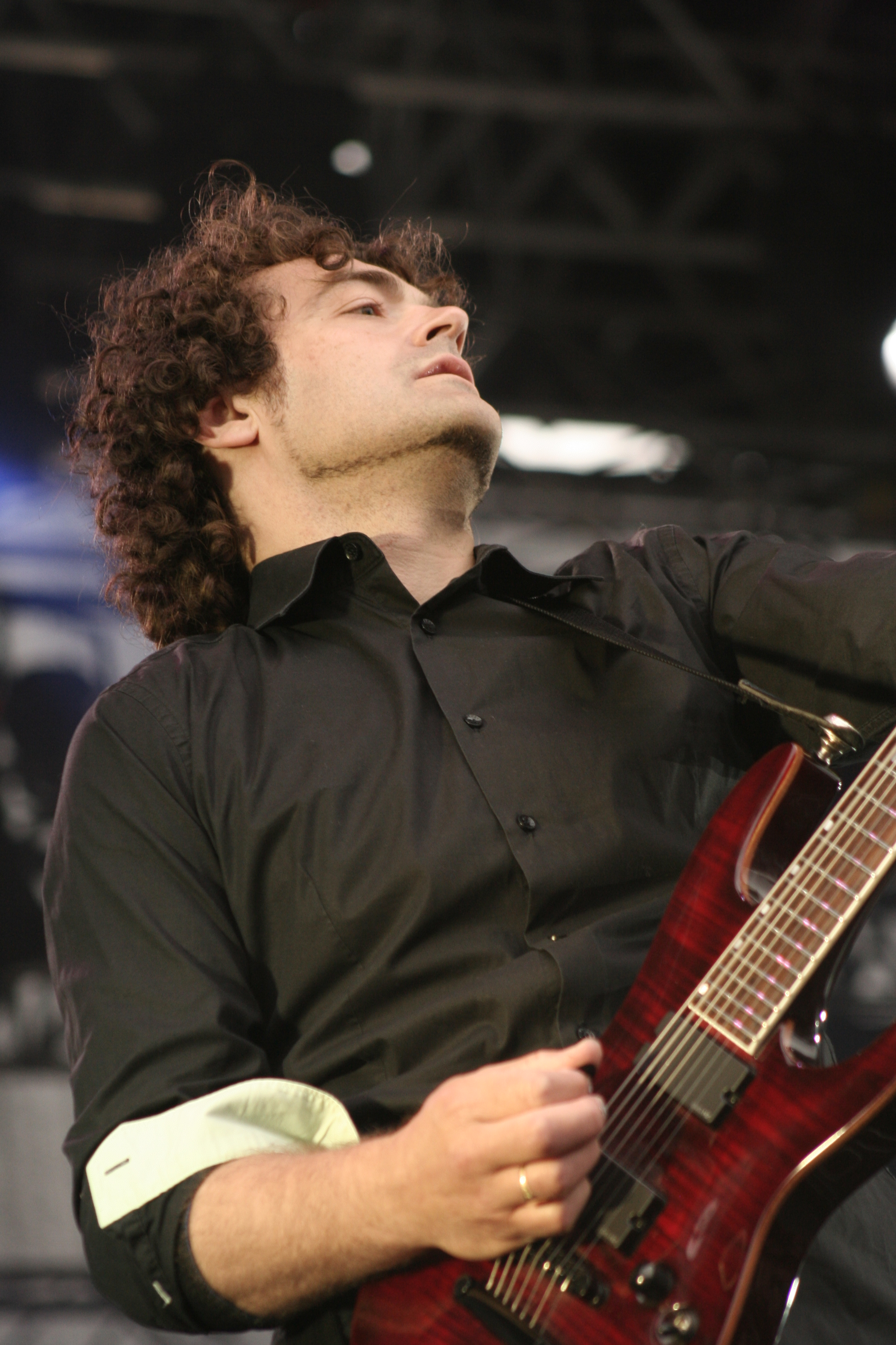 Guitarist Dan Rayner performing live in 2008.